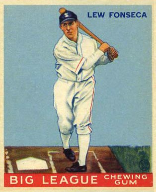 1933 Goudey baseball card of Lew Fonseca of the Chicago White Sox.